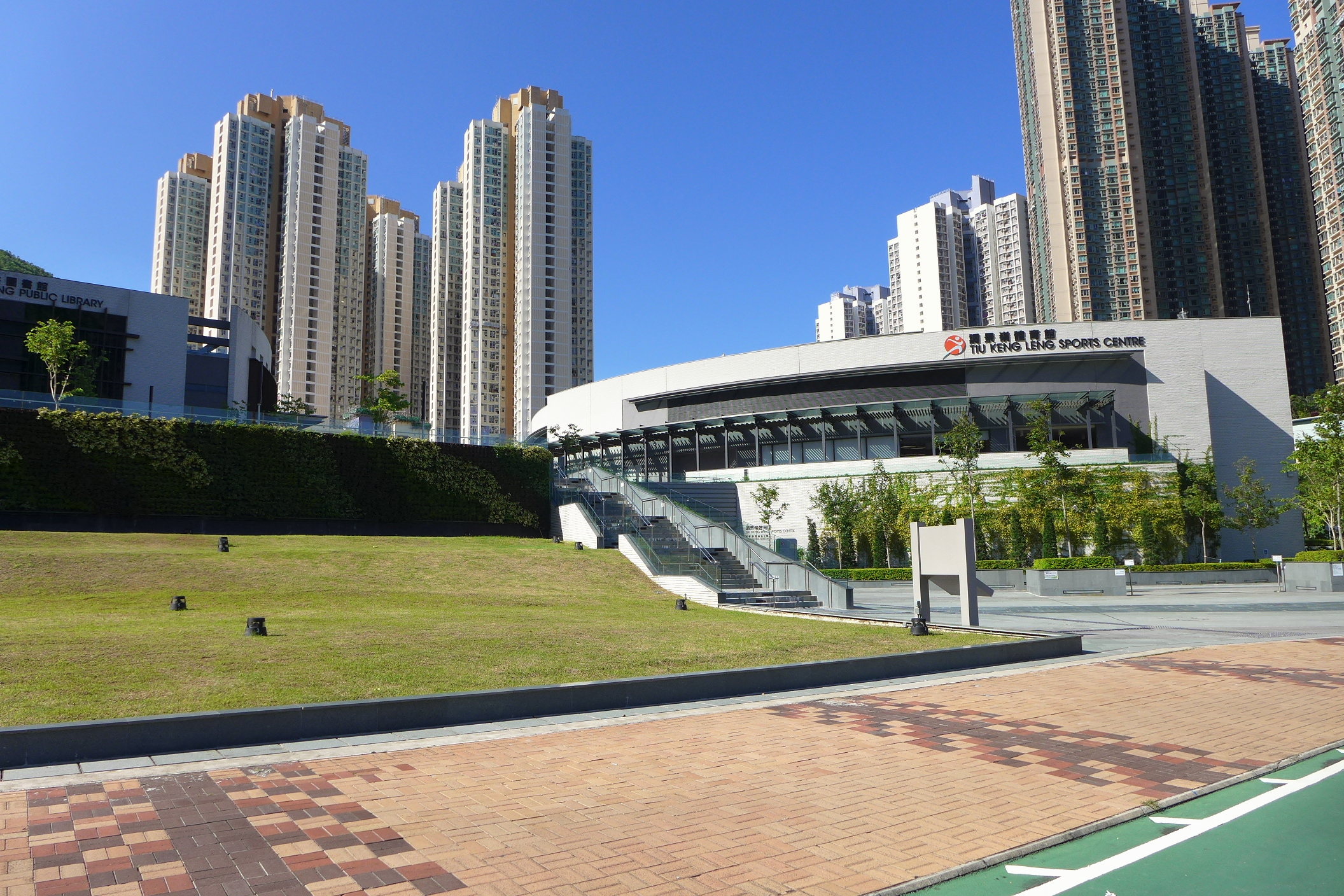 Tiu Keng Leng Sports Centre